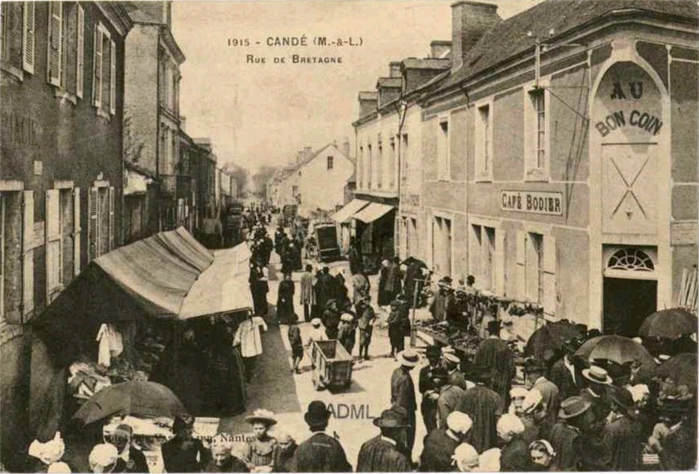 Brittany street (rue de Bretagne), on an old postcard, Candé, Maine-et-Loire, France